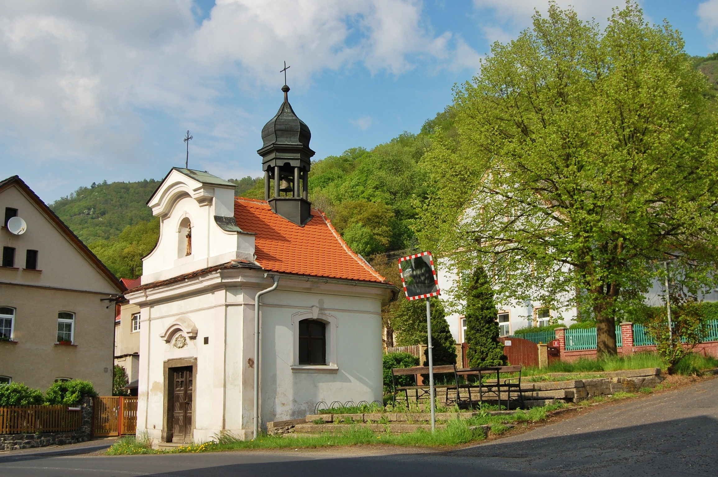 Chapel of Saint Anne in Brná nad Labem